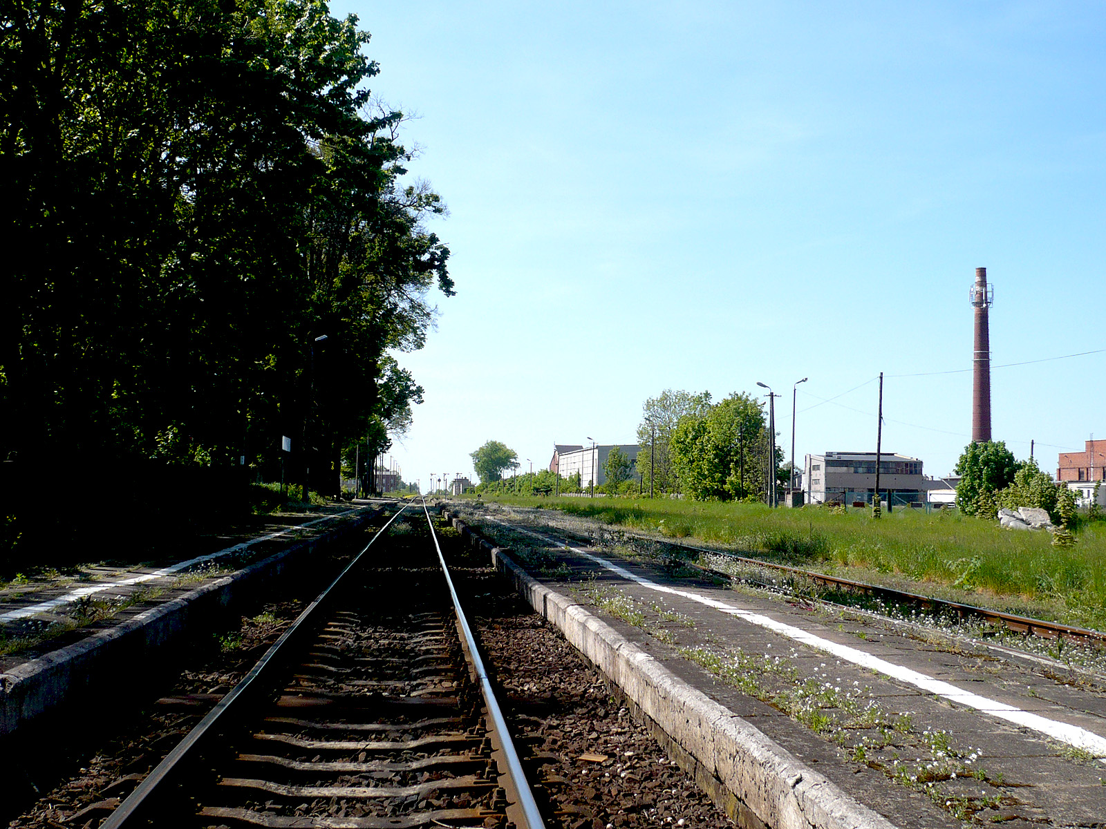 railway station in Mełno